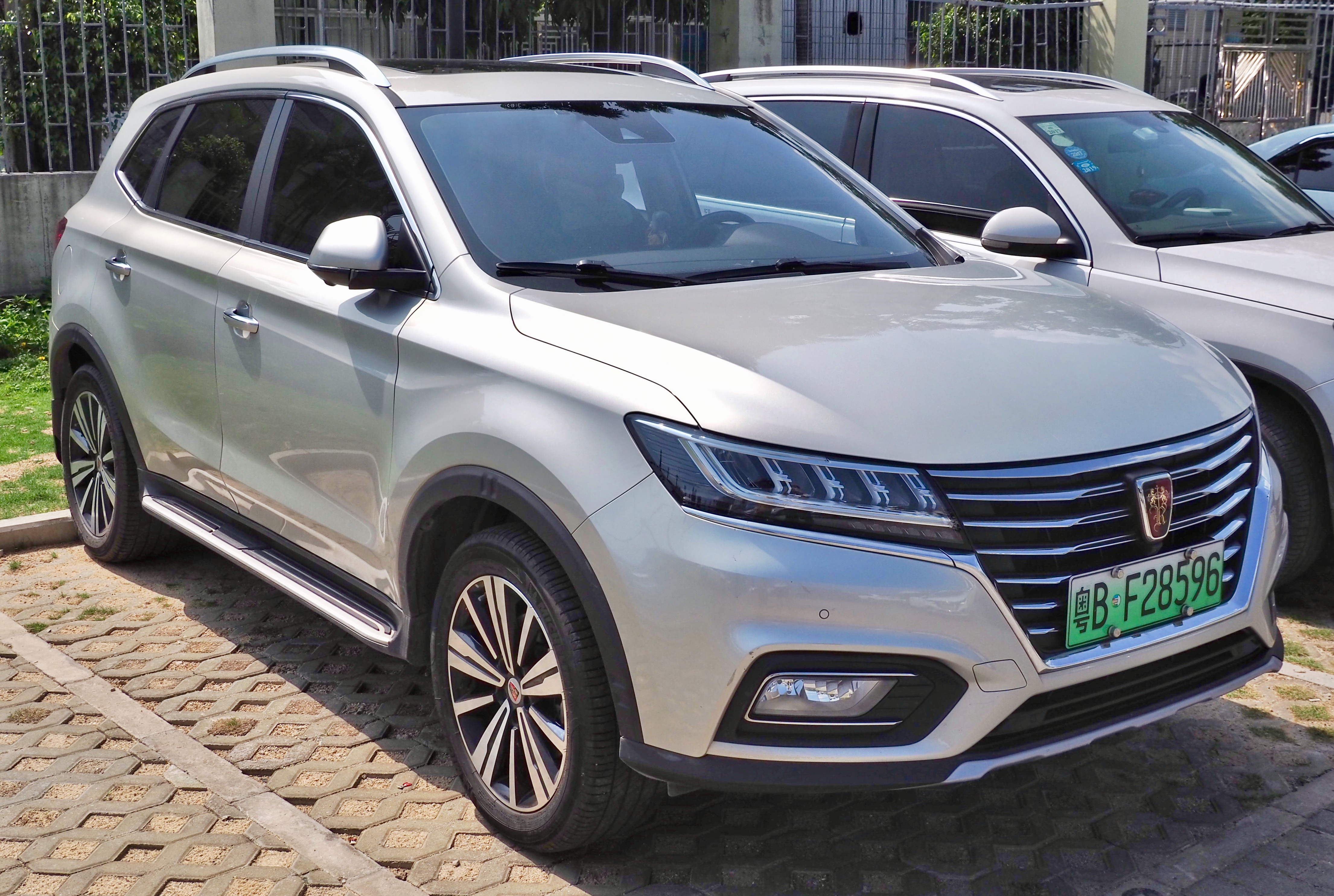 A 2017 Roewe eRX5 photographed in Shenzhen, Guangdong province, China. 中文（中国大陆）: 一辆2017年的荣威eRX5，拍摄于中国广东省深圳市。